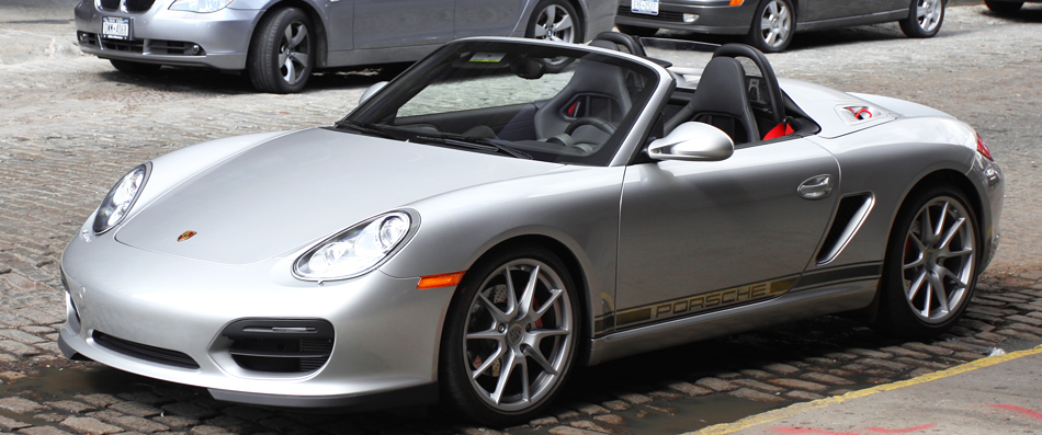 My first time seeing a silver one, it looked really good! There were three professional photographers there taking pictures of it. Shortly after a brand new 997.2 Turbo Cab arrived and they positioned them facing each other. I'm pretty sure the shoot was for Porsche USA or some magazine.